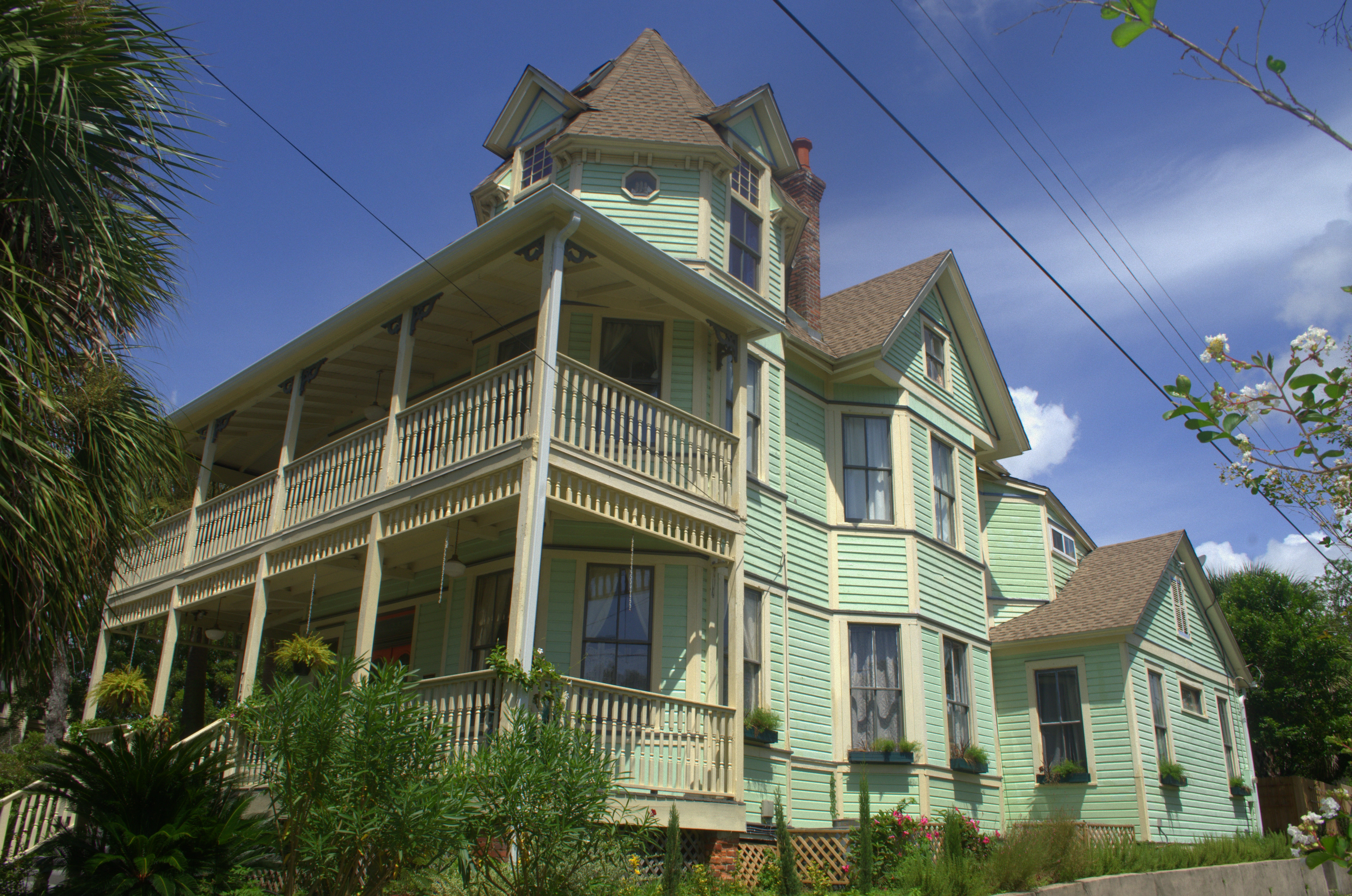 Marzoni House - built in 1890 by Louis D. Marzoni, son of Antonio Marzoni, a newspaperman who ran the Pensacola Democrat and Pensacola Observer and fought on the American Civil War.